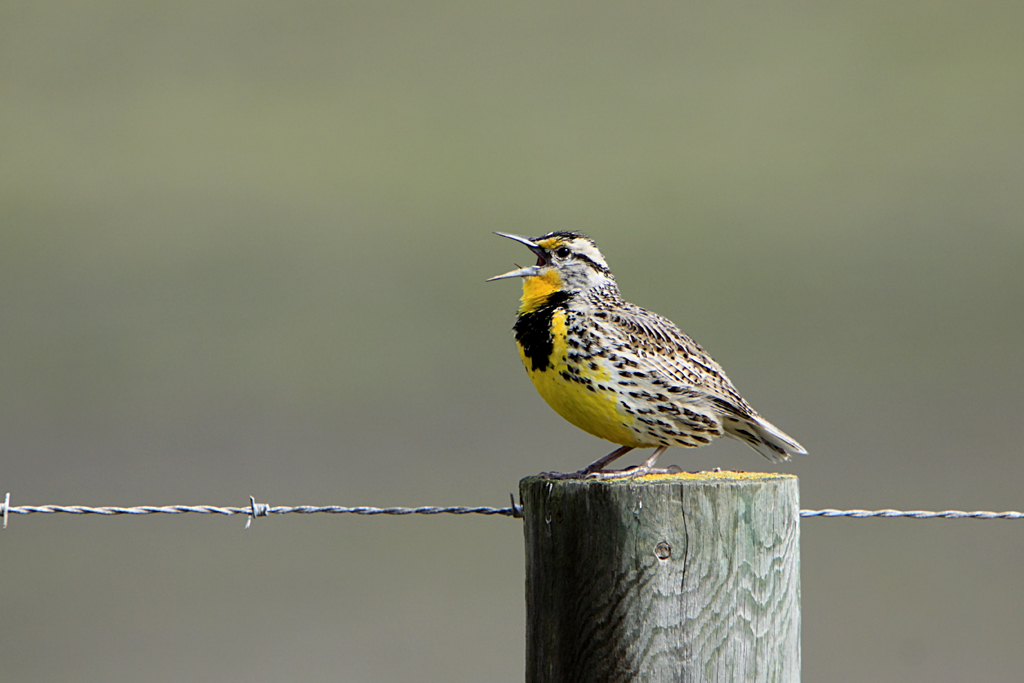 Western Meadowlark Sturnella neglecta singing. Morro Bay, California.